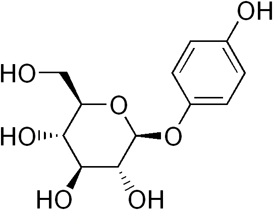 chemical structure of arbutin